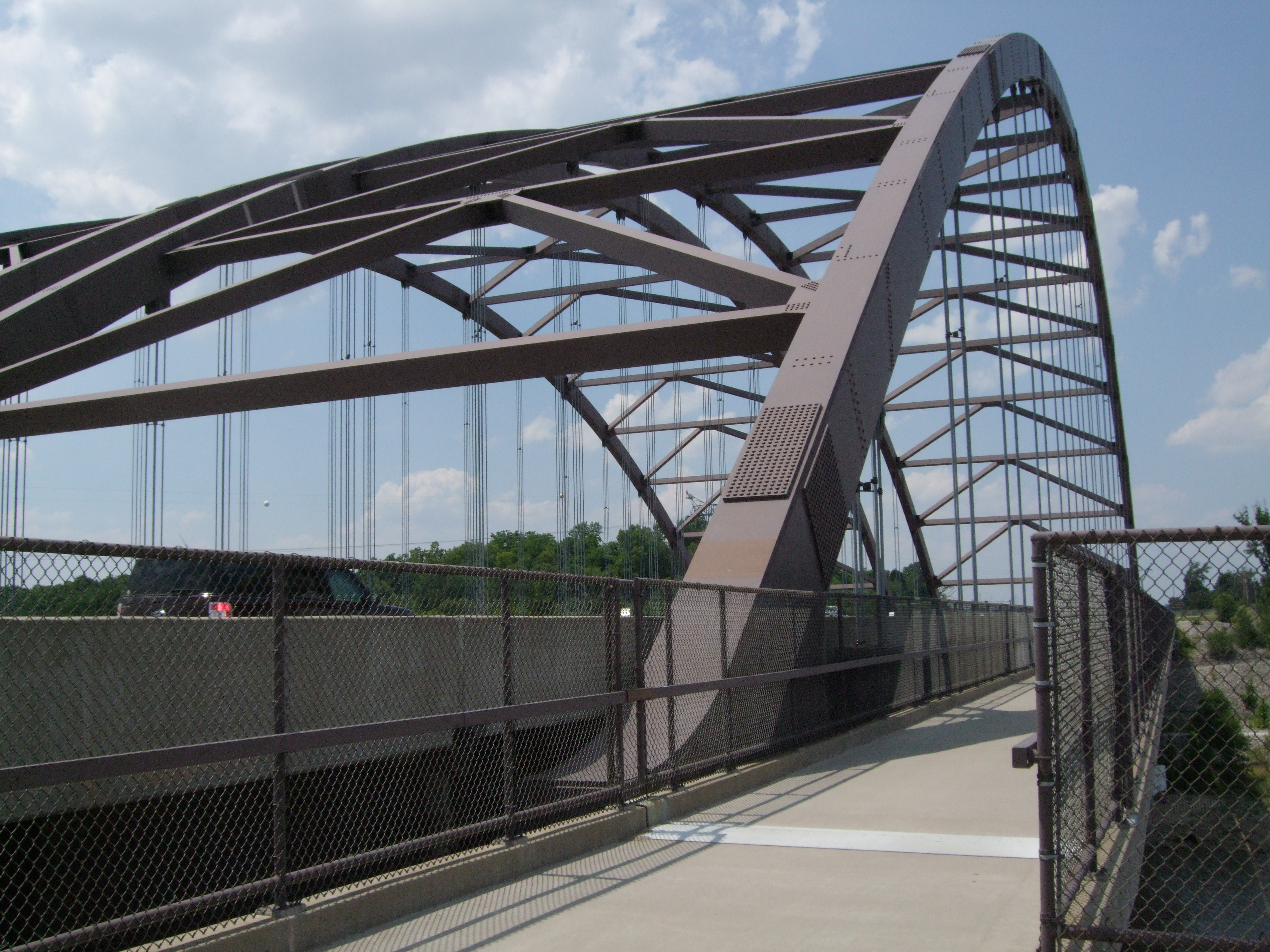 Picture of the Veterans Memorial Bridge which connects Saint Louis County to Saint Charles County and is part of Highway 364. It is a steel through arch, suspended concrete deck bridge.